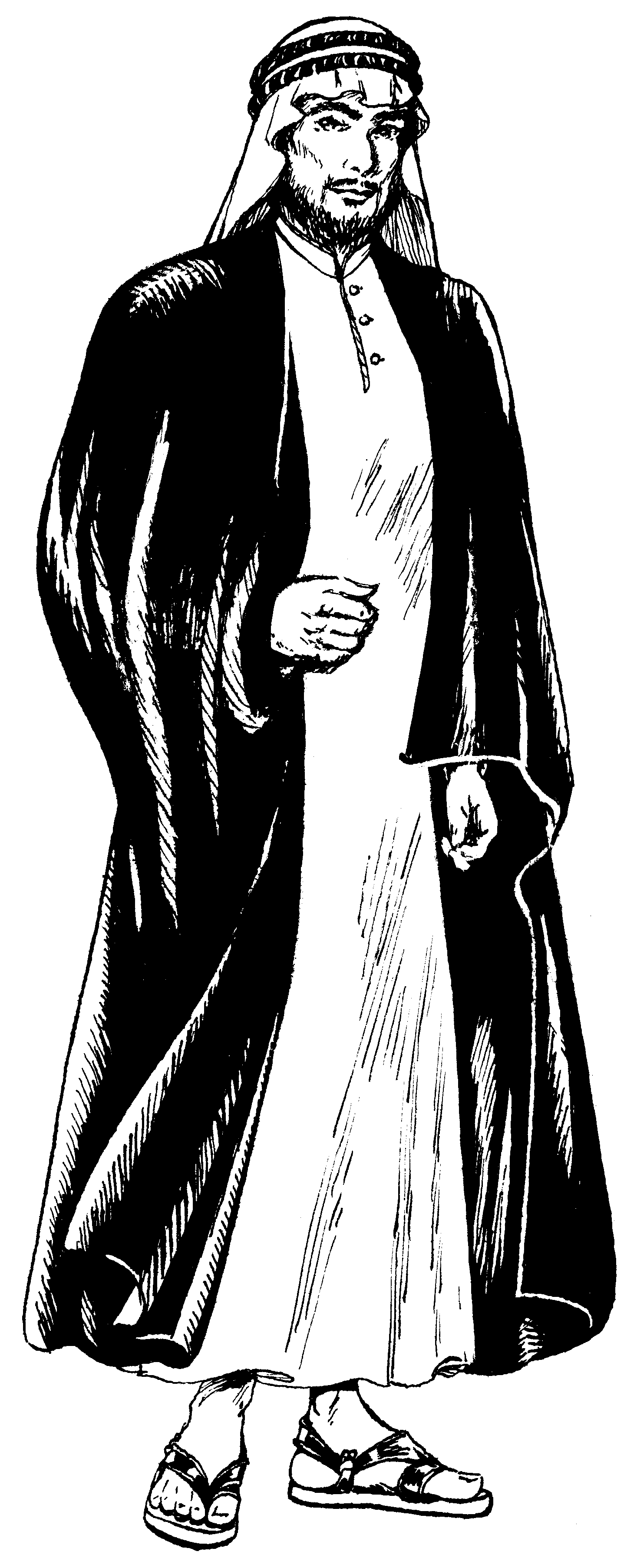 Line art drawing of an aba, a long garment worn by the Bedouins.